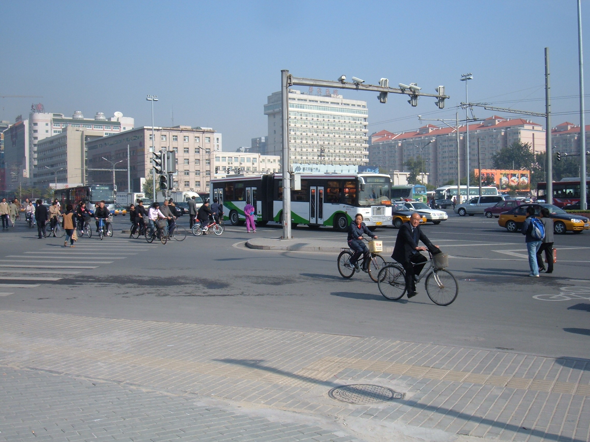 Ciqikou, the intersection of Chongwenmen Wai Dajie, Zhushikou Dong Dajie, Guangqumen Nei Dajie, Dongcheng District, Beijing, PRC.